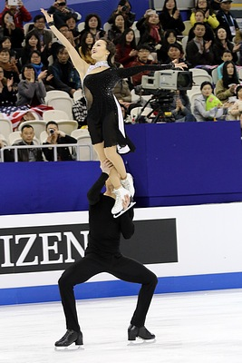 Madison Chock and Evan Bates at the 2015 World Championships